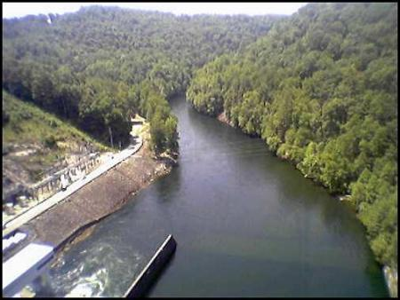 I made this myself.